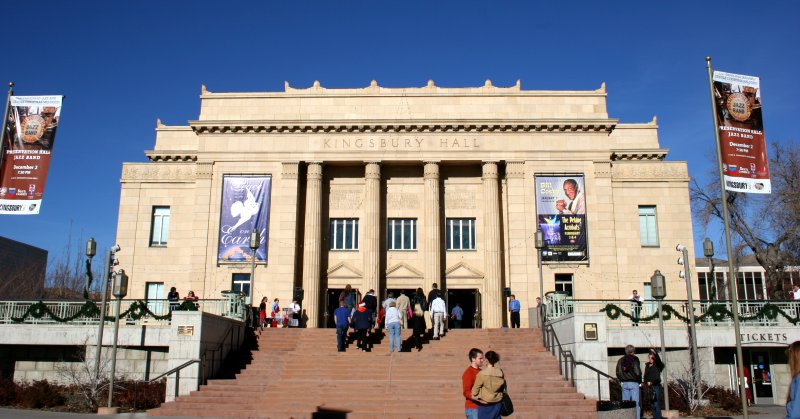 Kingsbury Hall at the University of Utah Salt Lake City, Utah Taken December 2005, by Brian Davis